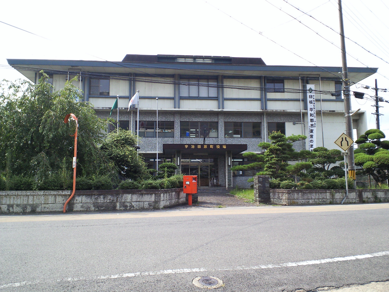 Ujitawara Town Office in Kyoto Prefecture, Japan